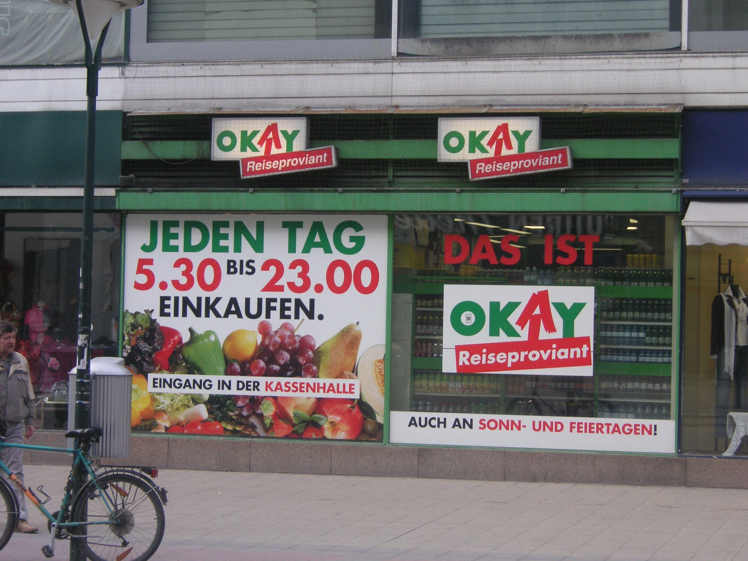 A shop open outside regular shopping hours at Wien-Mitte, a train and underground station in Landstraße, Vienna, Austria quite close to Innere Stadt (Vienna's city centre). Photo taken by KF, Easter Sunday, April 16, 2006.